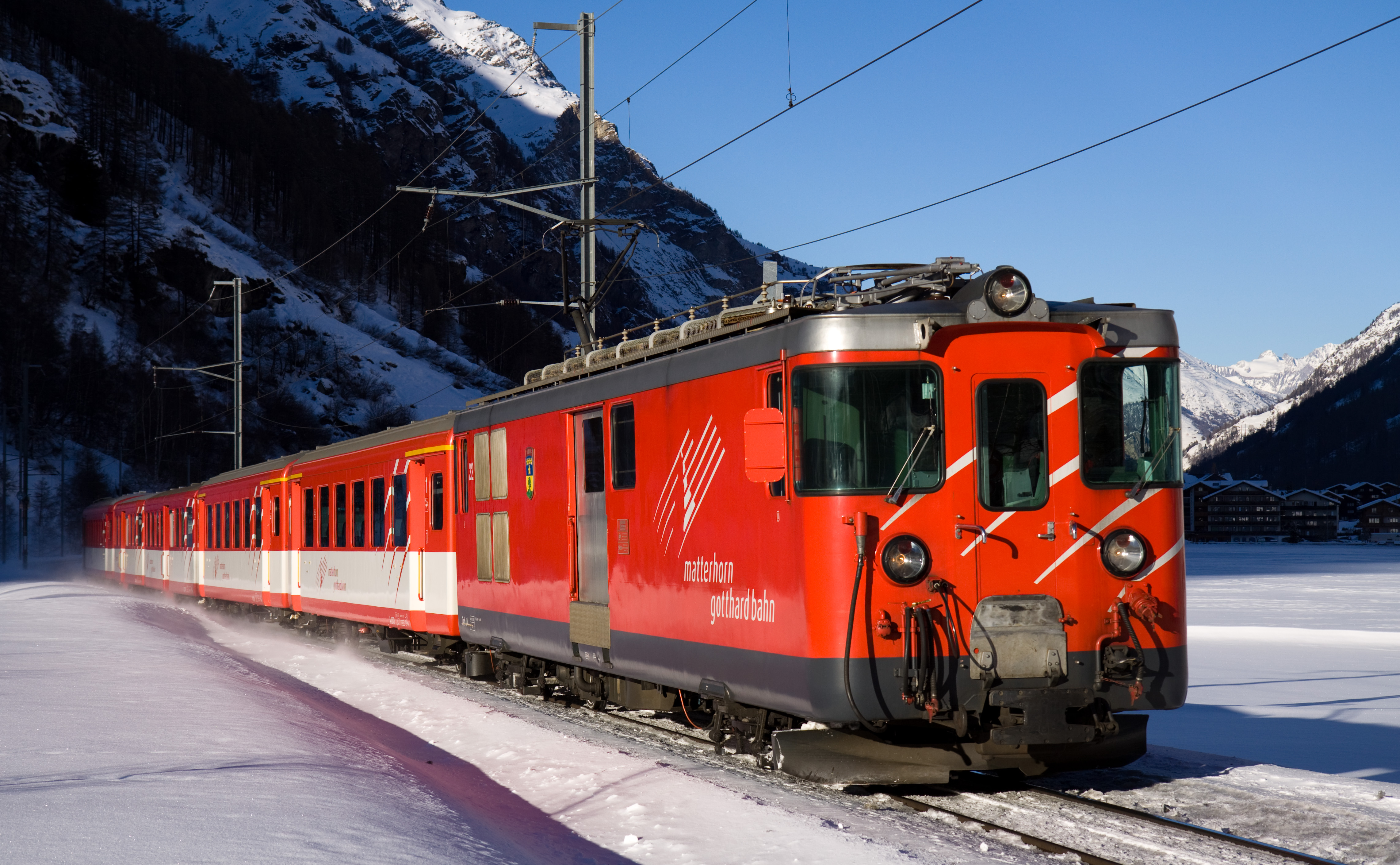 This rack rail multiple unit Deh 4/4I 22 operated by Matterhorn–Gotthard-Bahn has just left Täsch for Zermatt.